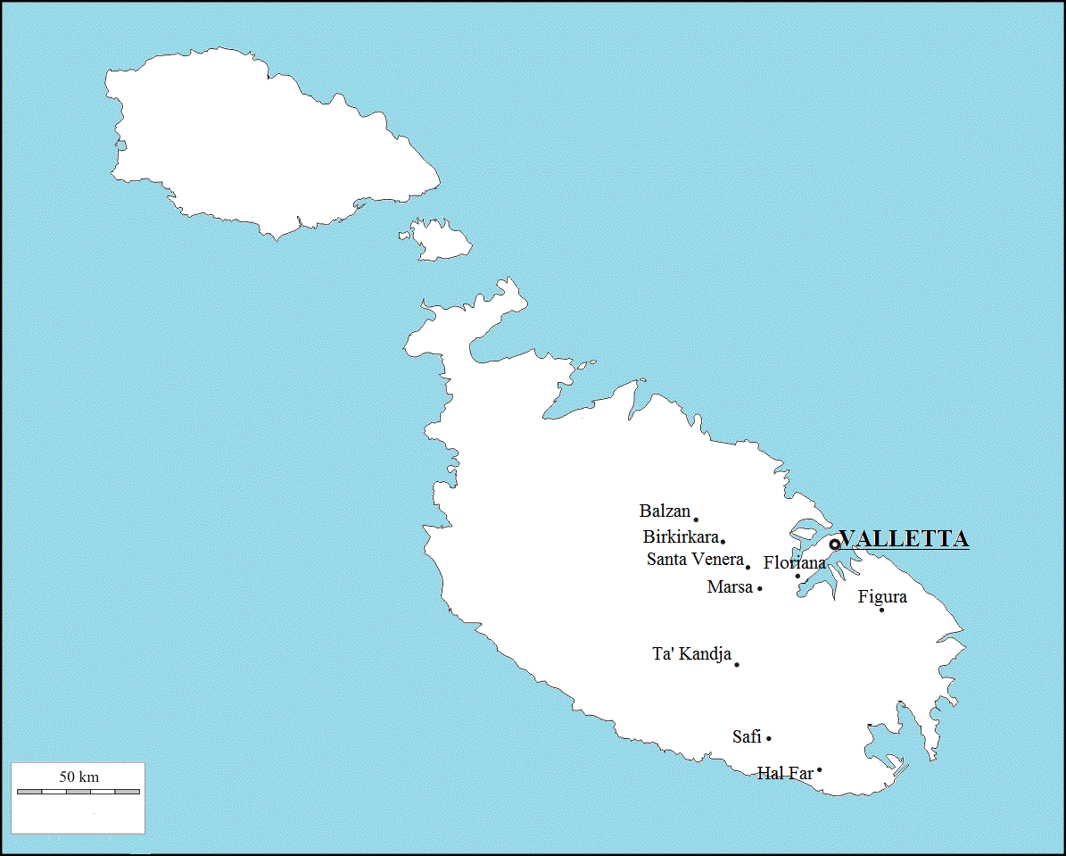 Principal Immigration Centre in Malta